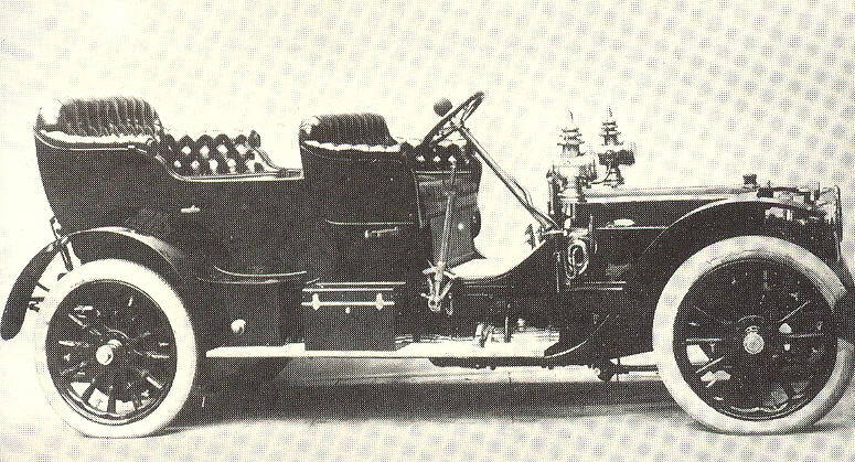 Fiat 50 hp (1907)